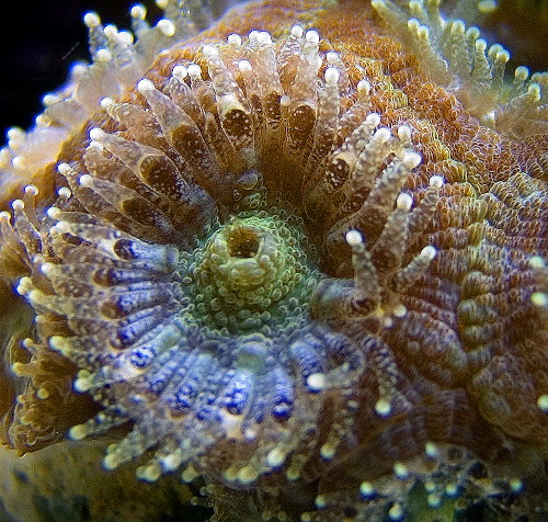 Specimen of Acanthastrea lordhowensis photographed in aquarist Mike Giangrasso's coral reef aquarium.